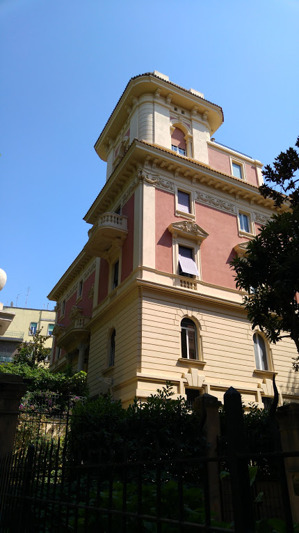 Istituto religioso della purezza di Maria Santissima in Rome (Women's Religious Institute of Our Lady of Purity in Rome), viale Parioli 49-51